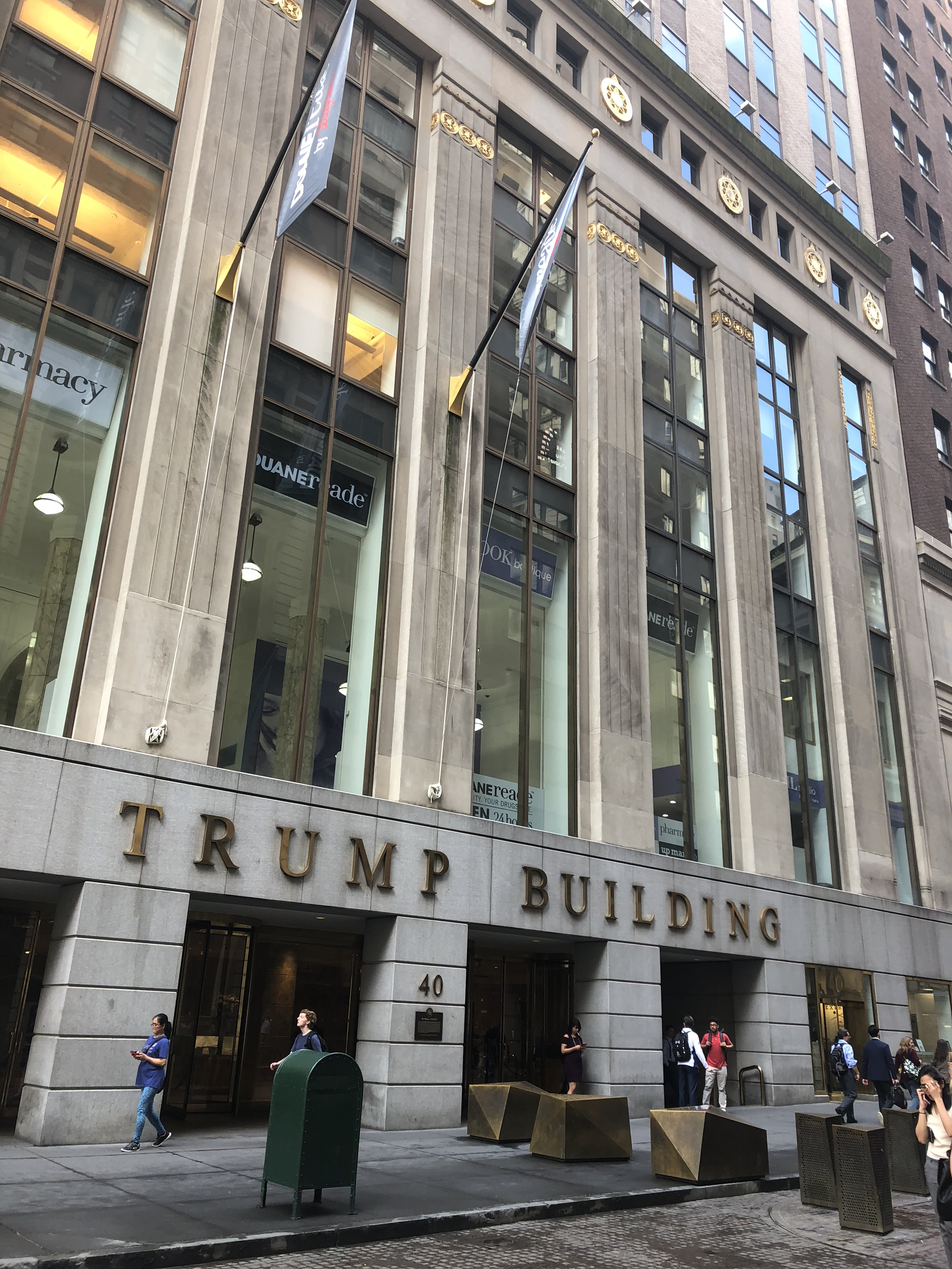 40 Wall Street, "Trump Tower", lower Manhattan, NY